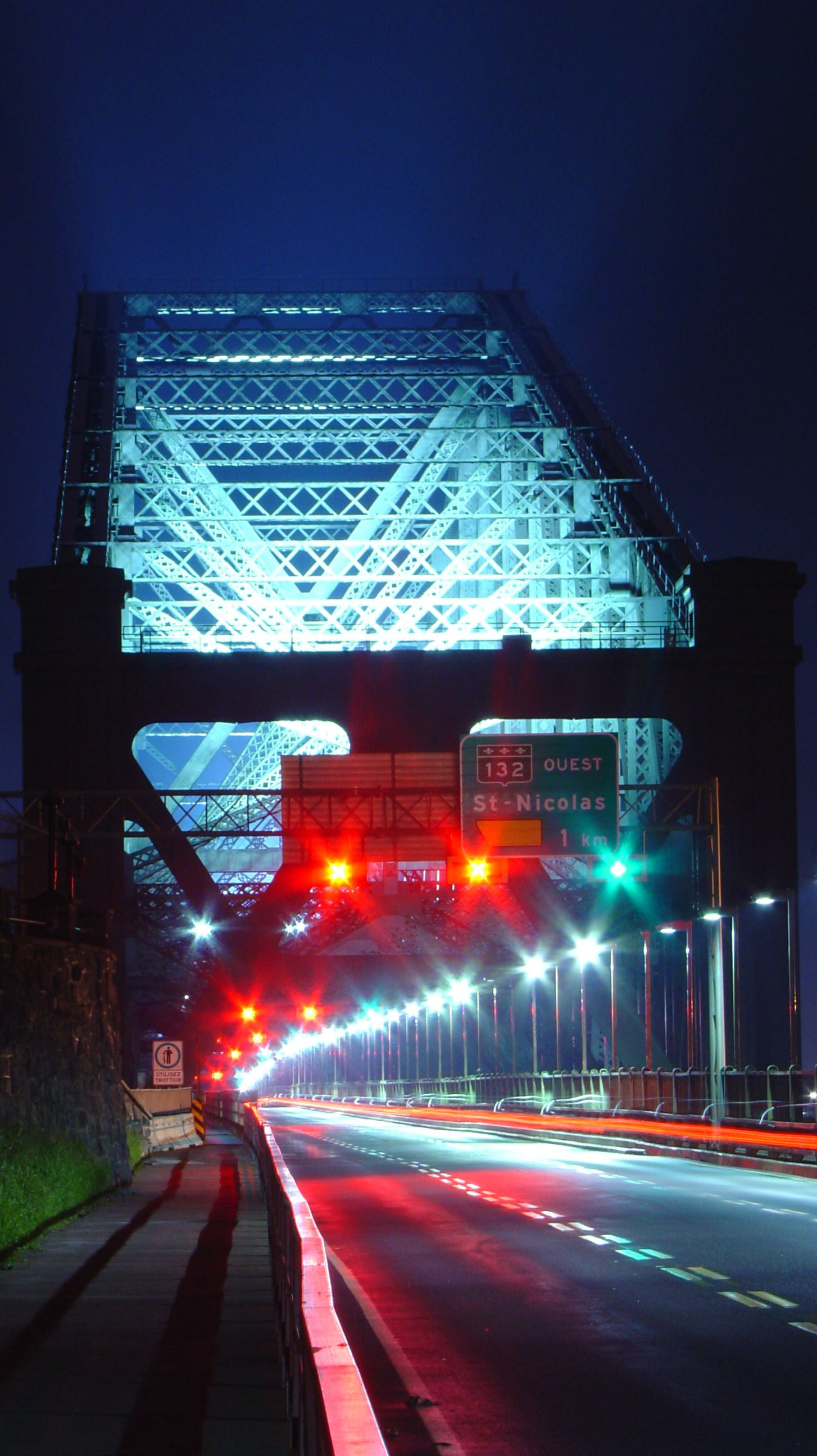 Please, have this description accessible to all by translating it in different languages. Photographie longue exposition de l'entrée nord du Pont de Québec.